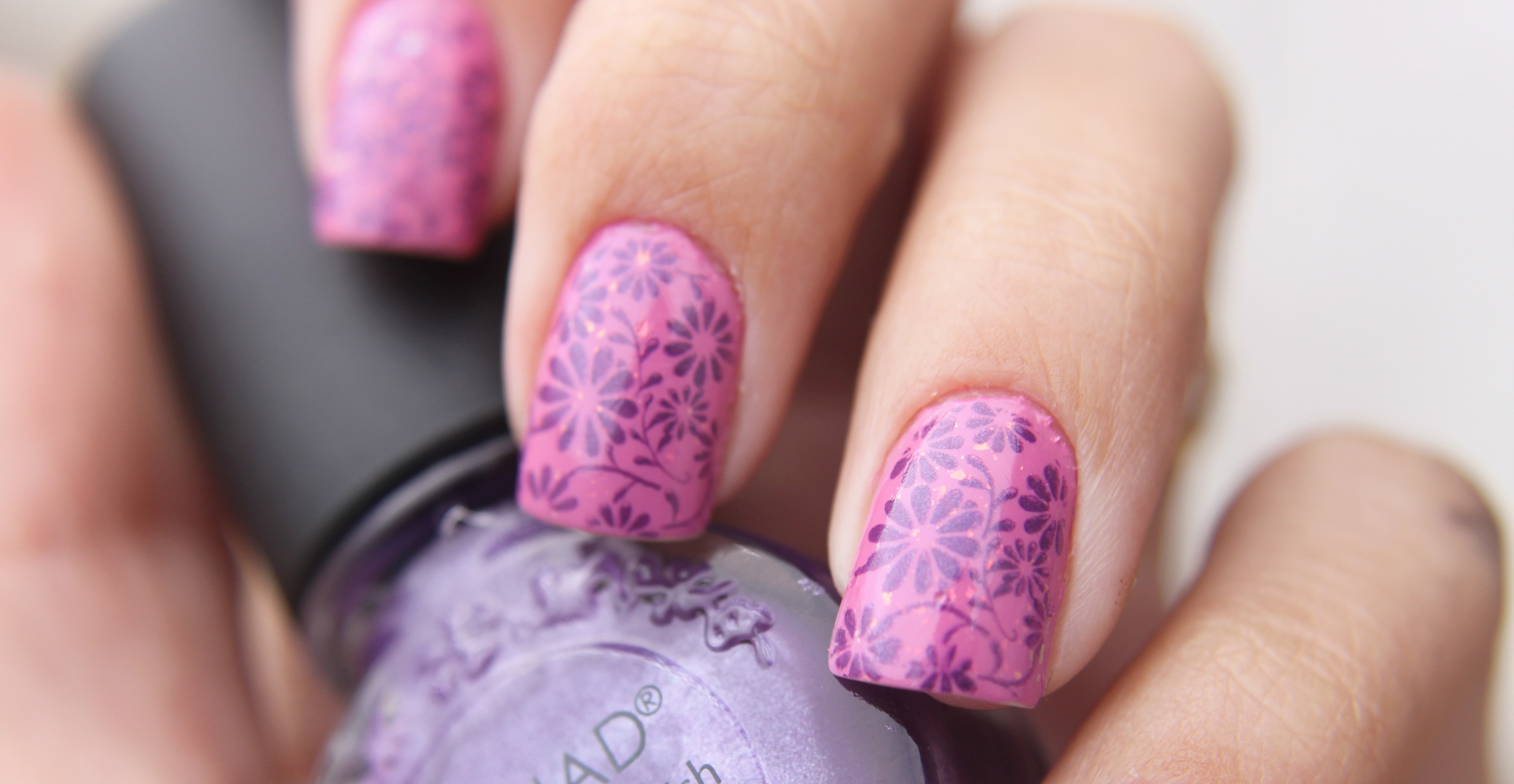 Essa sou eu roubando no Desafio! hehe Nail Art delicada pra mim é flor! Então ter essas duas opções tão seguidas assim me OBRIGOU a roubar... não quero unha de flor duas vezes seguidas! hehehe Essa estampa lindinha é da BM!